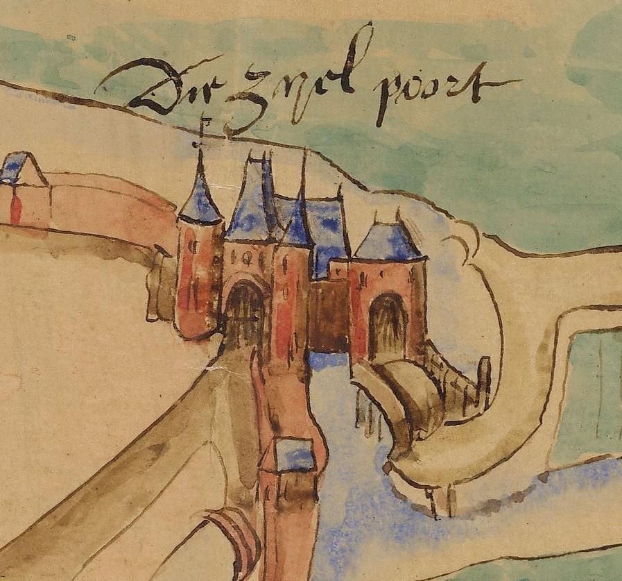 Detail showing the Zijlpoort (city gate)